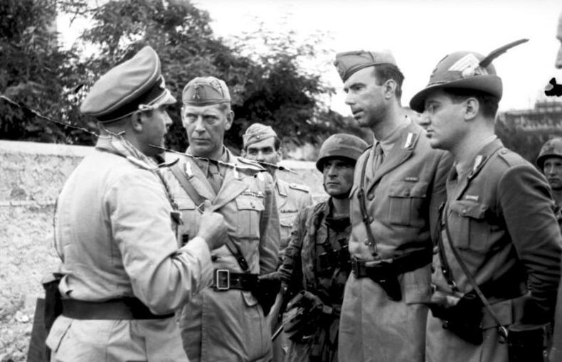 Information added by Wikimedia users.*